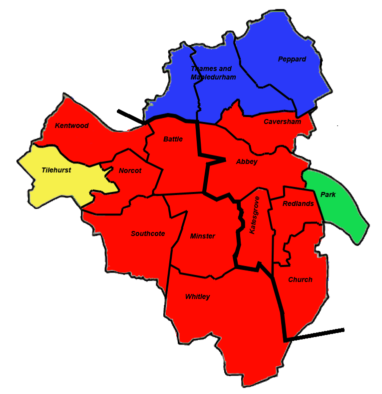 Graphic illustrating the electoral make-up of Reading Borough Council after the 2012 Local Election